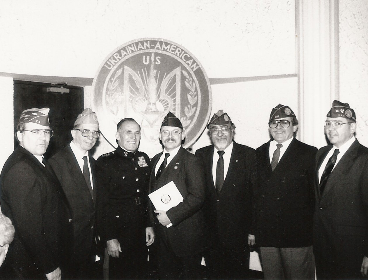 Nov. 11, 1989 at Ukrainian American Veterans Post 23, 10th Anniversary Banquet, Buffalo, N.Y. From left: Roman Rakowsky, Dmytro Bykovetz, General Samuel Jaskilka USMC, Jerry Fedoryczuk, Harold Bochonko, Stephen M. Wichar, Edward A. Zetick. Photo credit: George A. Miziuk